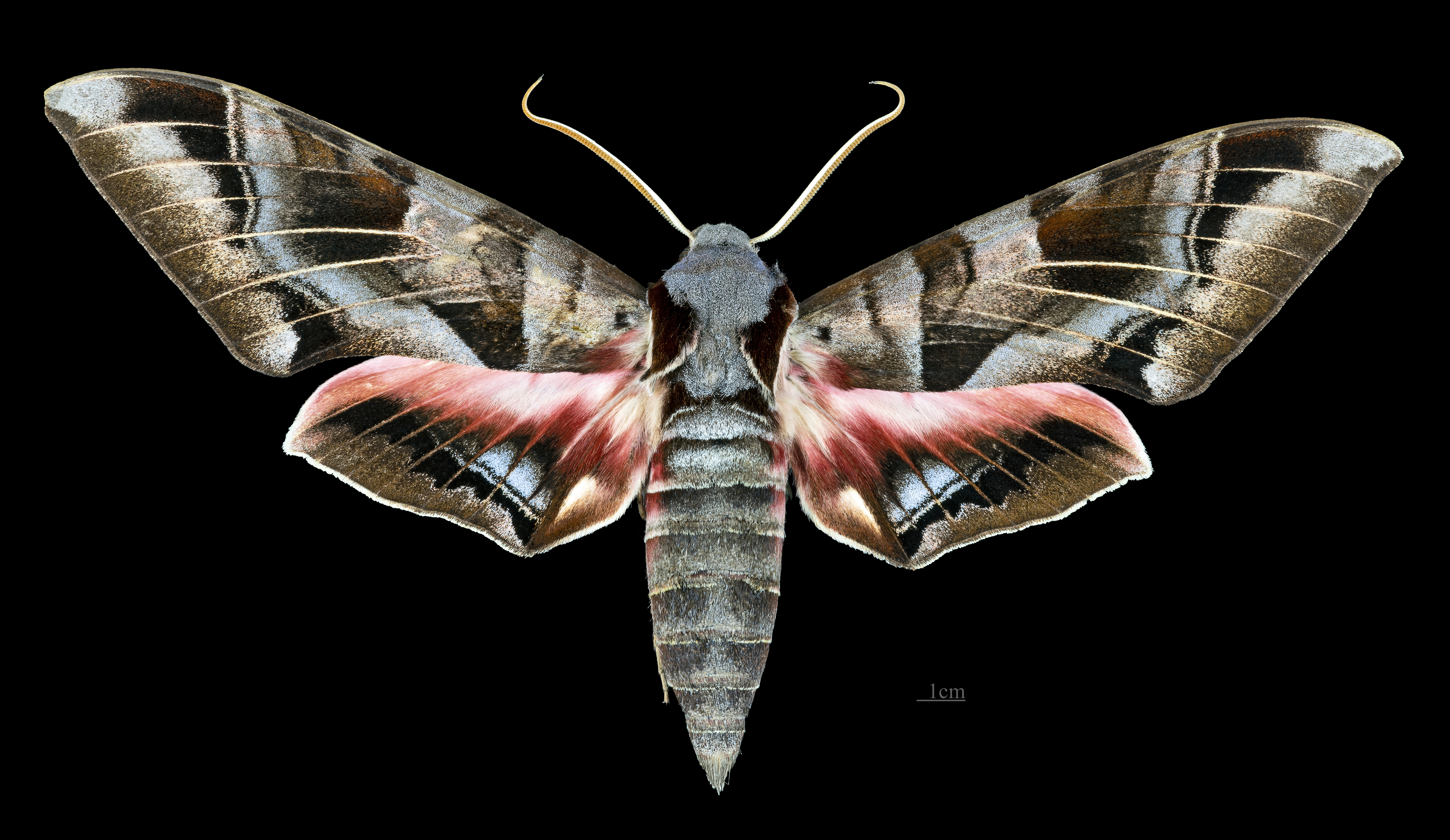 Eumorpha typhon - Dorsal side Collection of the Mathematician Laurent Schwartz